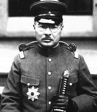 General Andō Rikichi of the Imperial Japanese Army, between 1935 and 1940